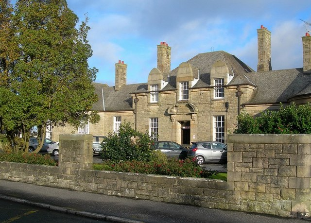 The Davidson Hospital This cottage hospital has served the town of Girvan for many years. It will be replaced in 2010 by a new hospital being built on the outskirts of the town.